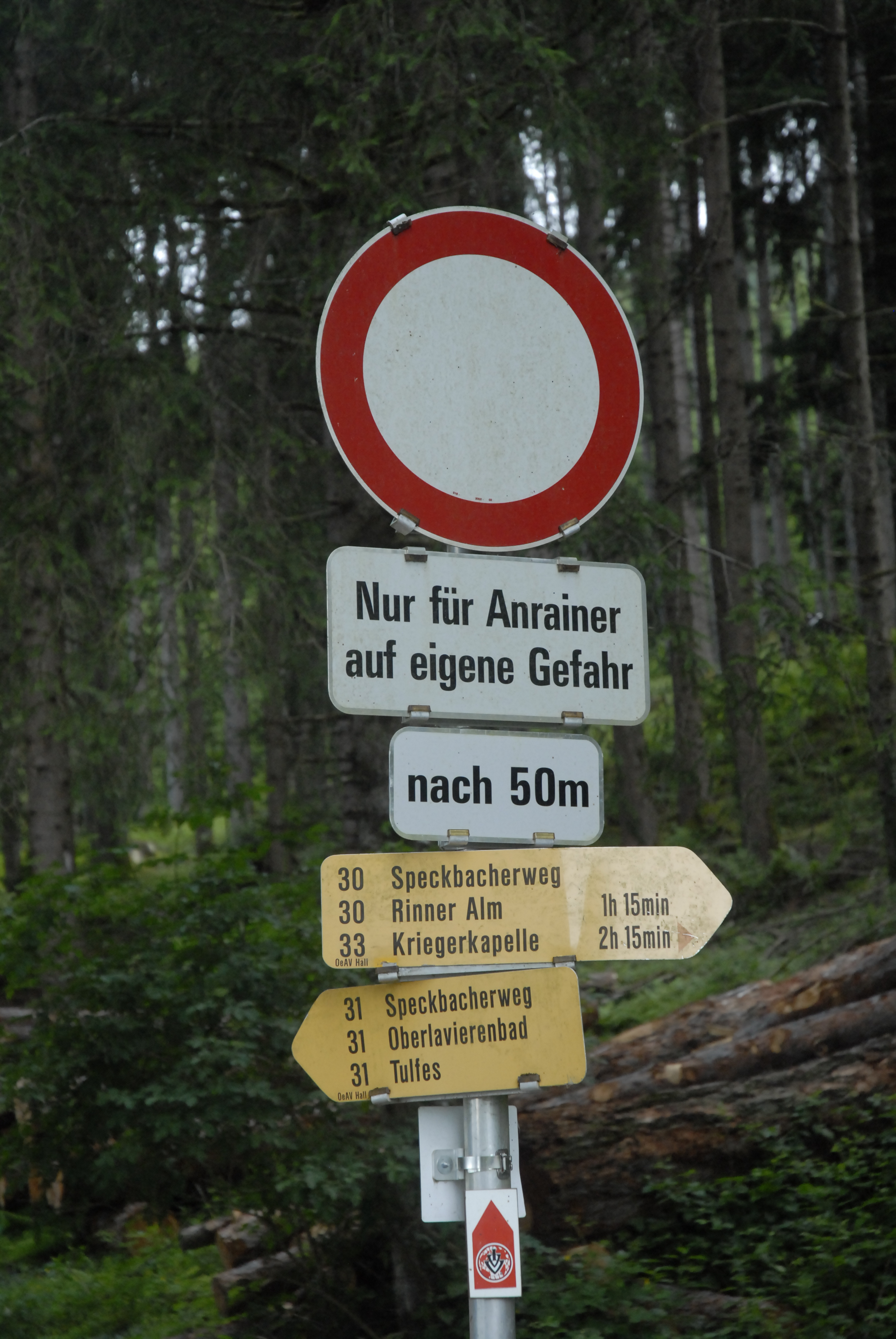 According to additional board, driving ban affects residents only.